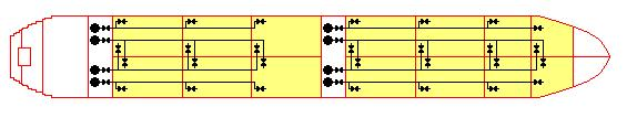 design of a new tanker